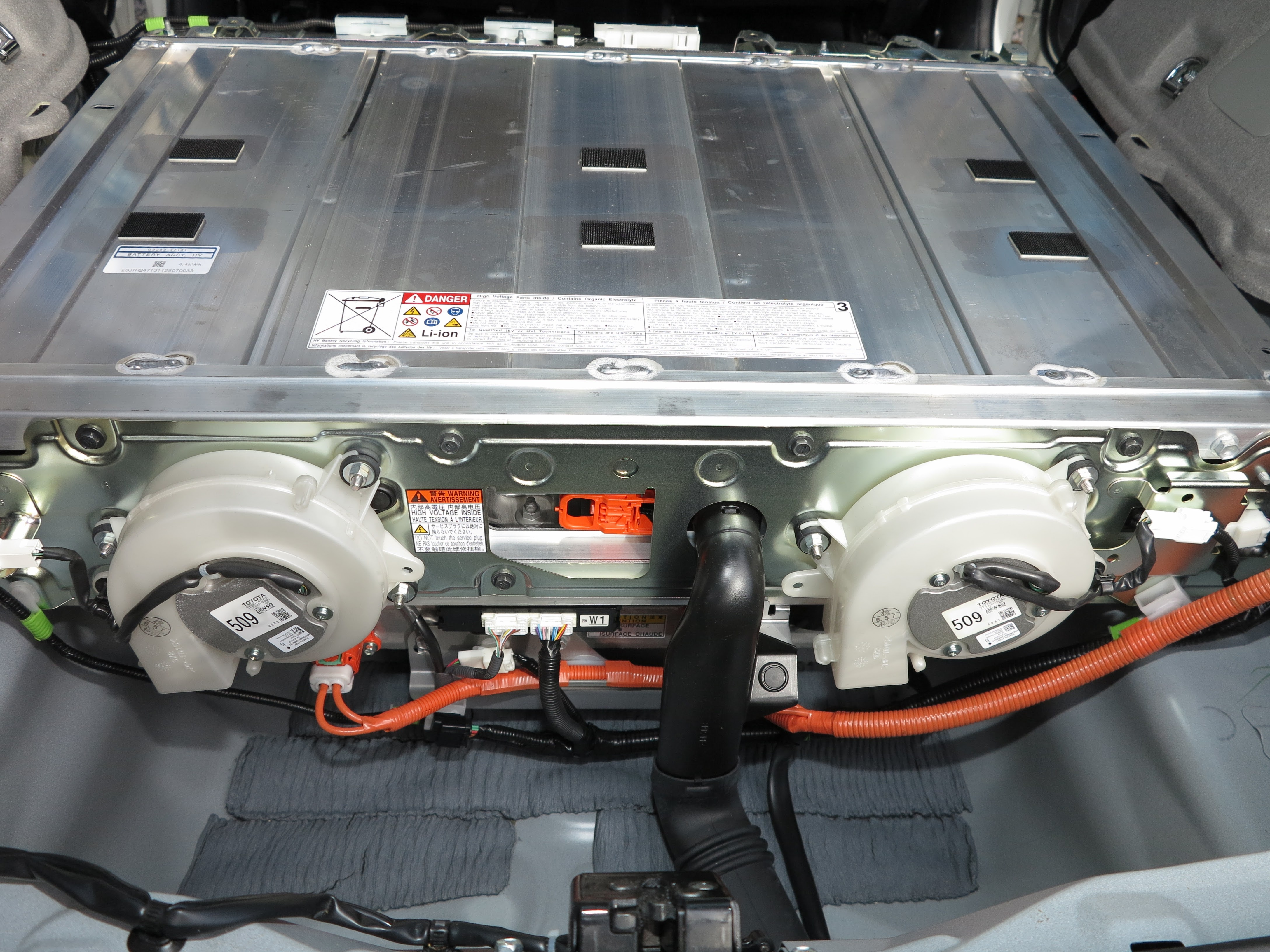 Prius PHV XW30 LiIonen Accu